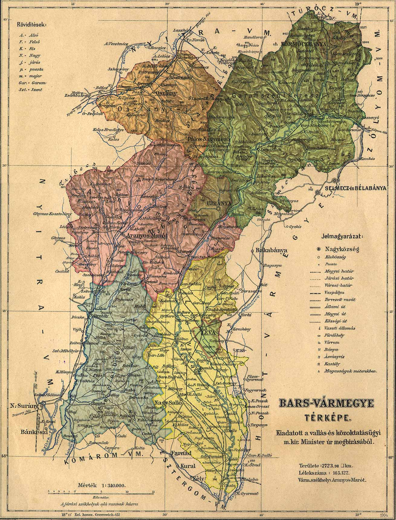 Administrative map of the county of Bars in the Kingdom of Hungary